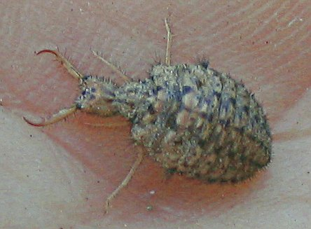 Antlion larva, own picture, June 2004, Germany